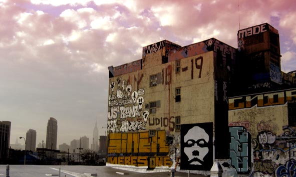 Open your eyes in New York